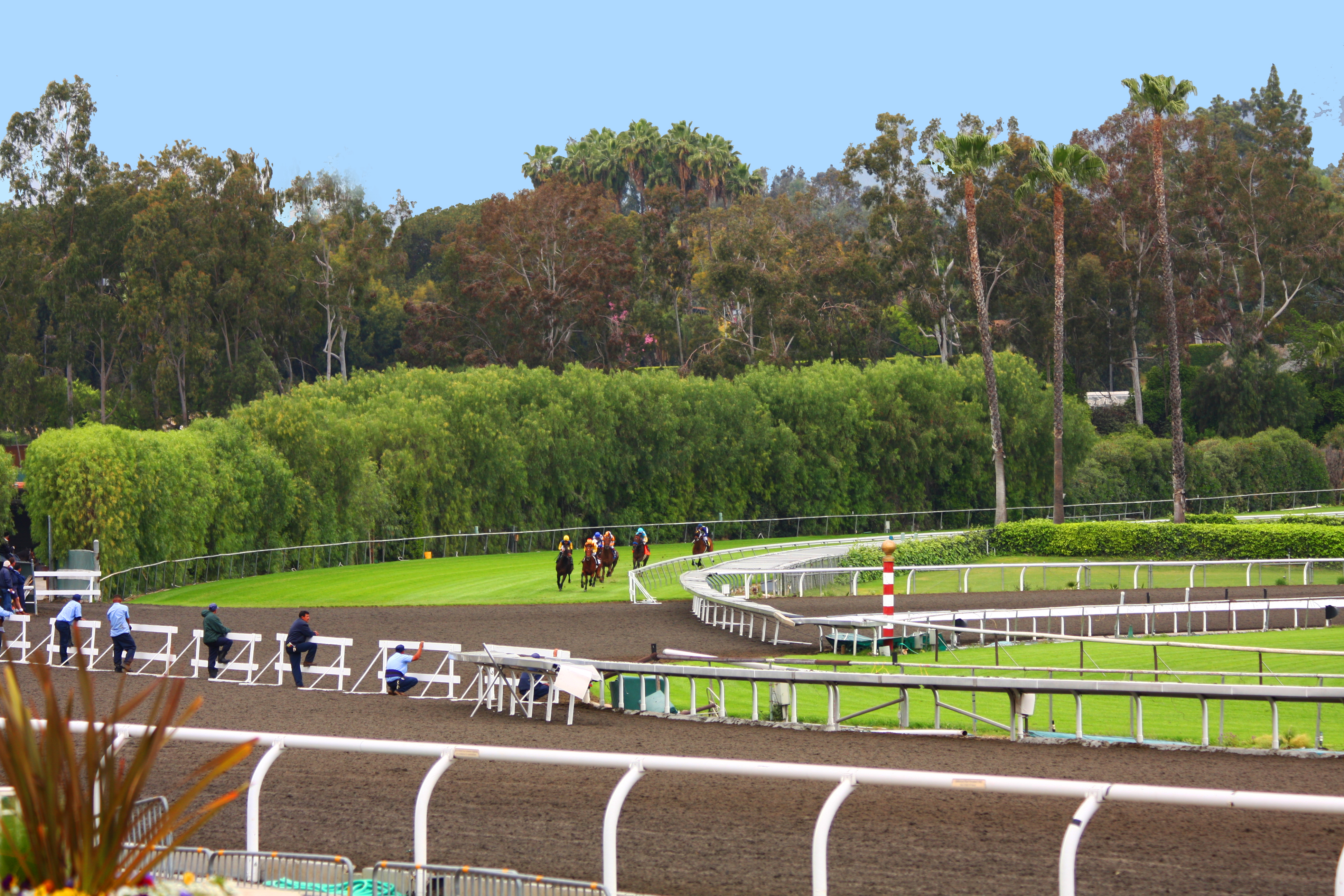 Horses on the downhill turf course at Santa Anita, approaching the dirt crossover